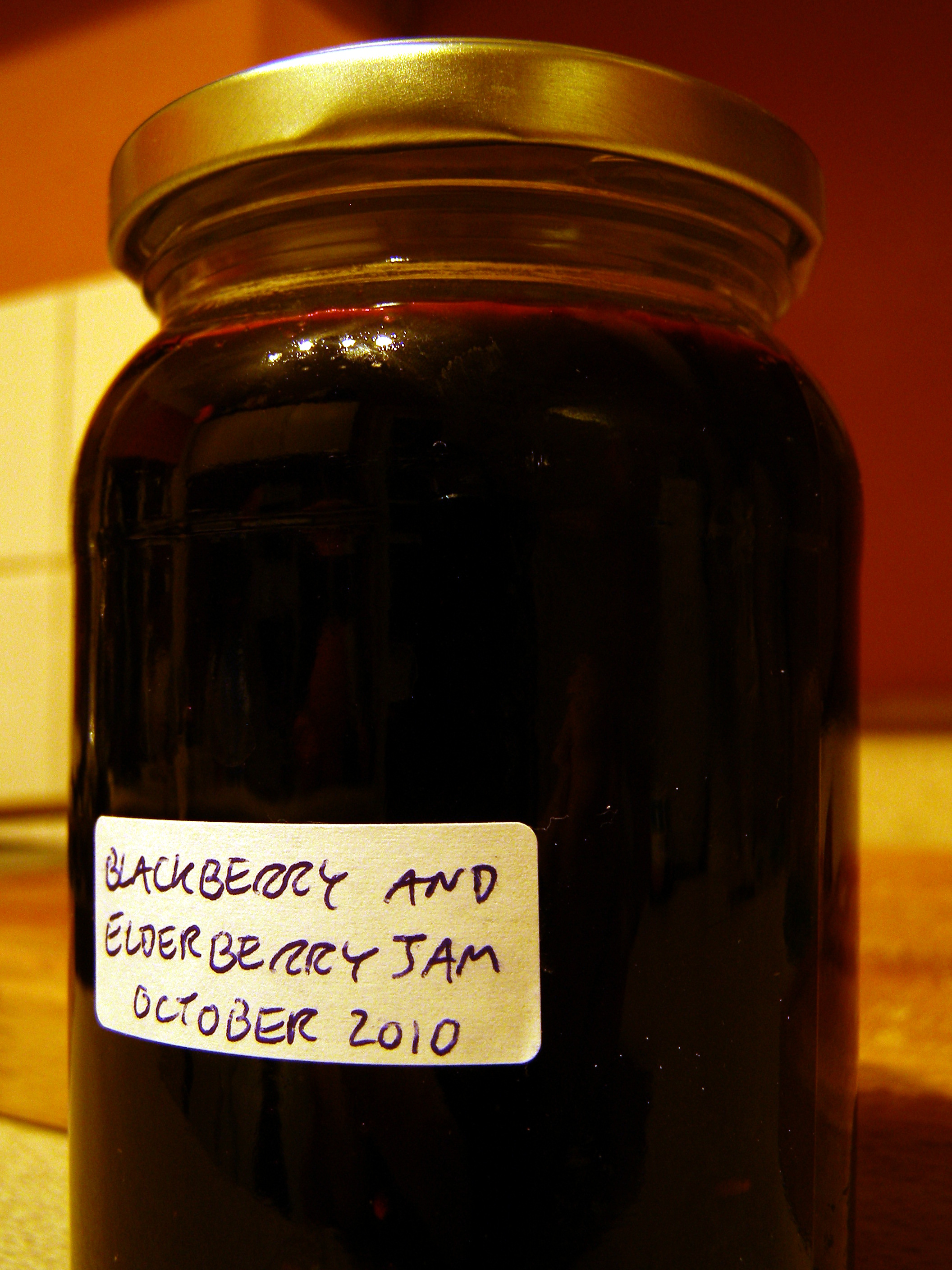 Blackberry and elderberry jam.